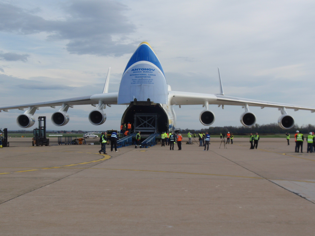 Loading an transformer (weight 140 t) in to AN-225 on Airport Zagreb